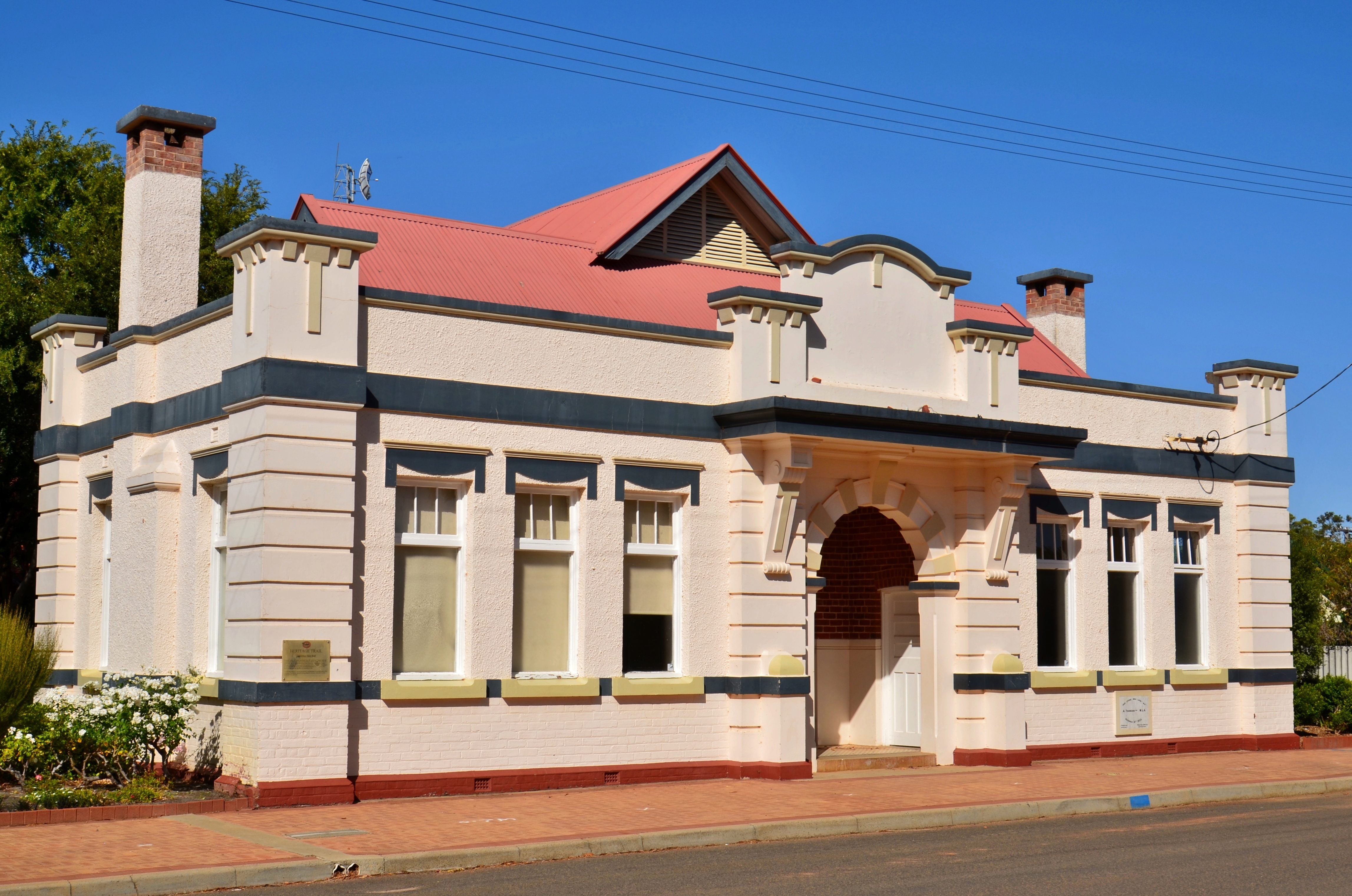 View of the Shire Hall, Tambellup, Western Australia